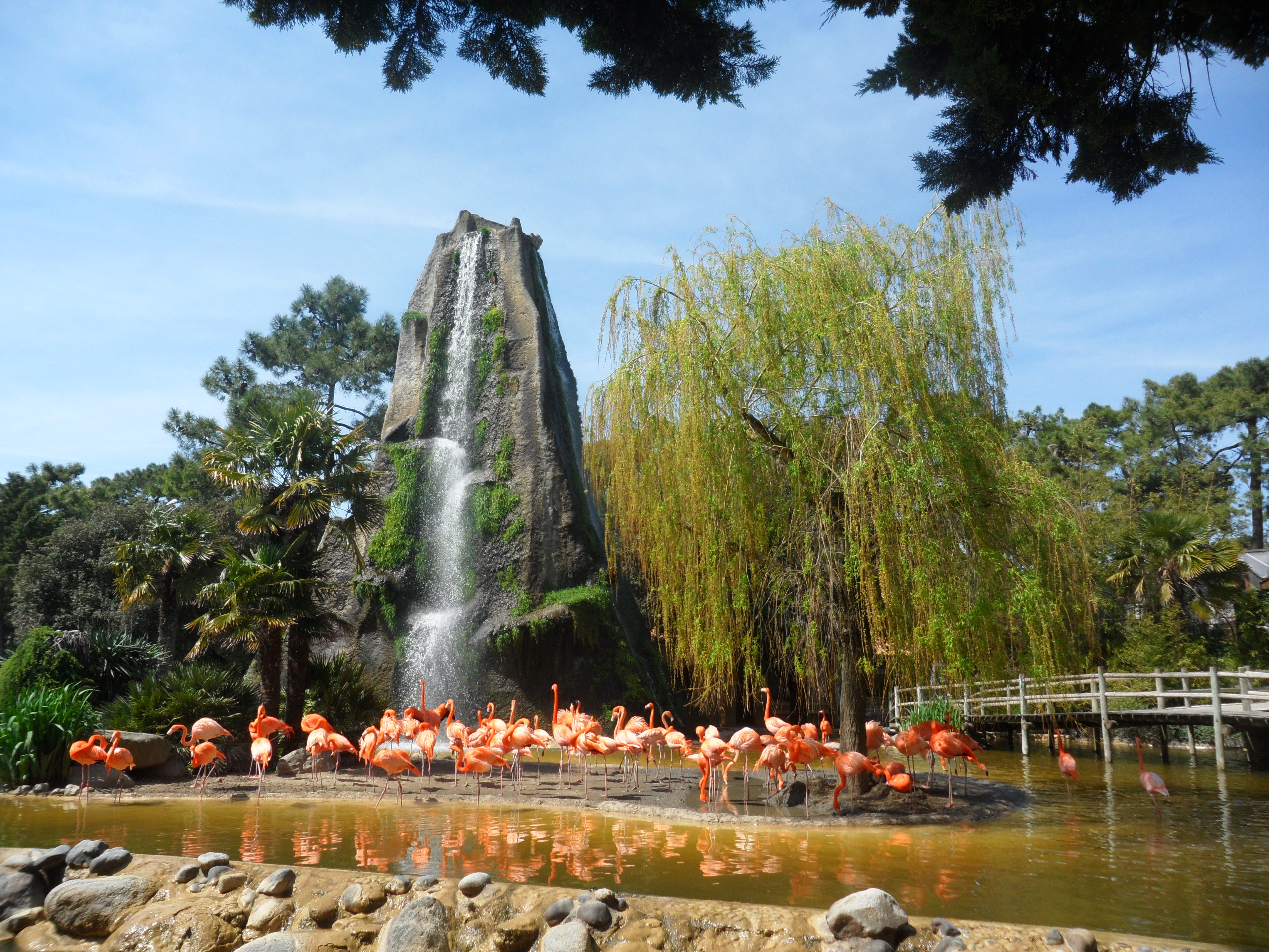 La Palmyre zoo, waterfall